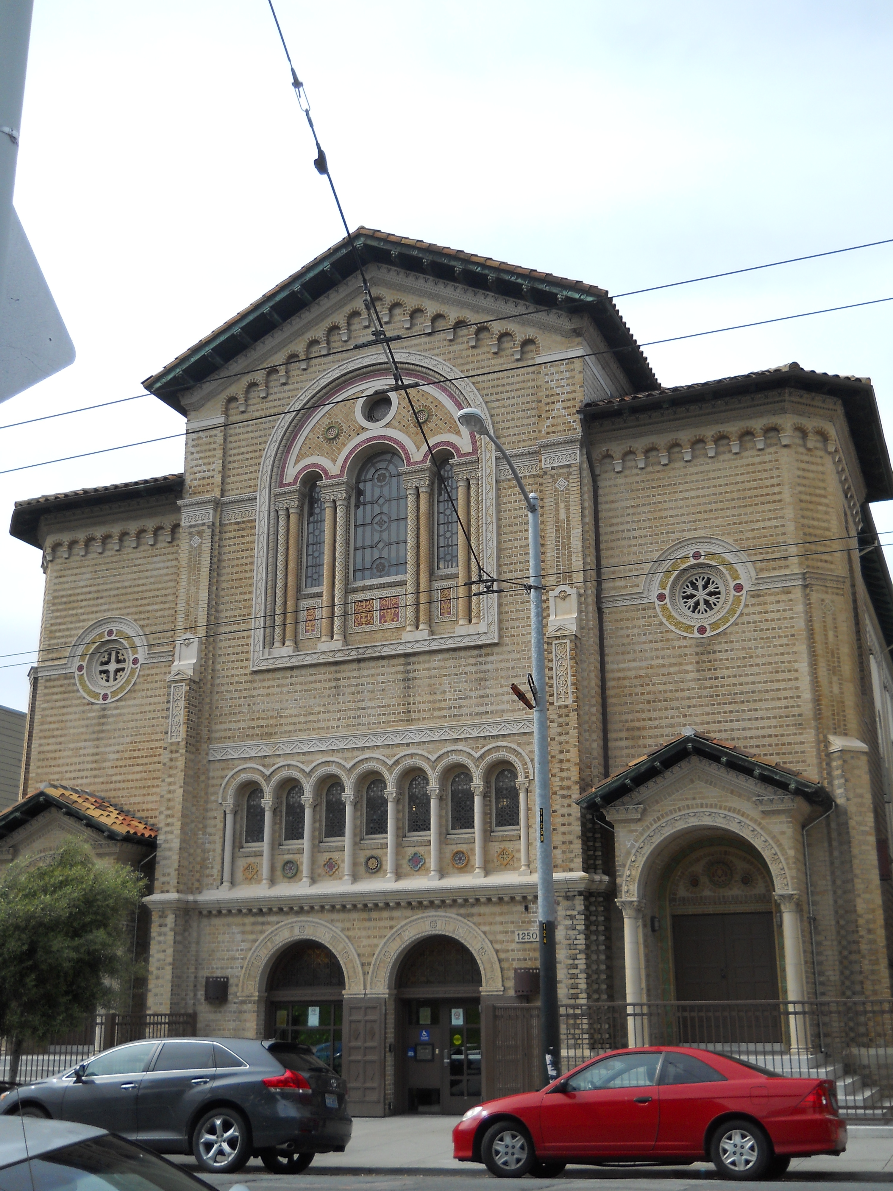 Buena Vista Terrace, former Third Church of Christ, Scientist, 1250 Haight Street, San Francisco, California